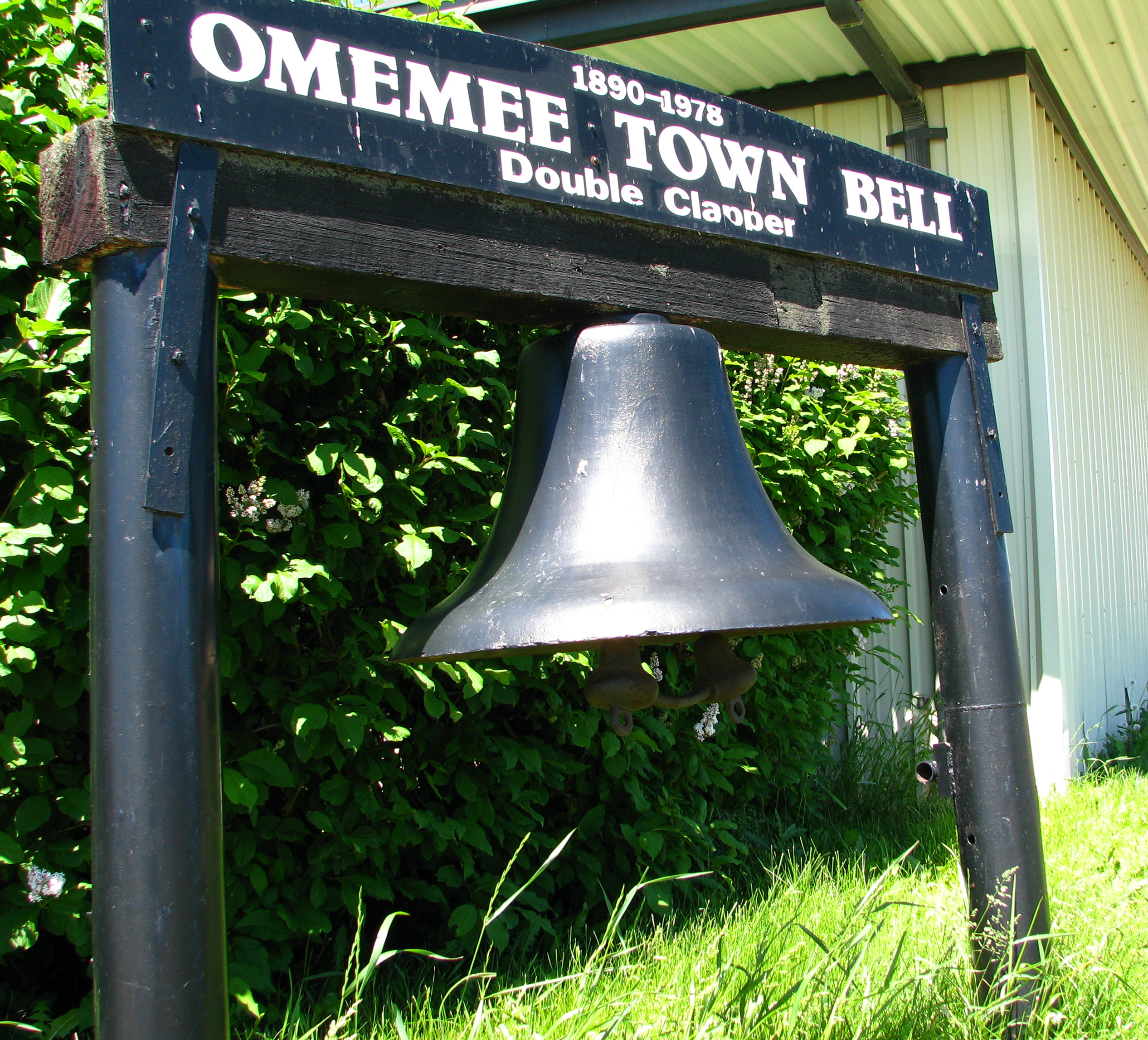 Town Bell of Omemee, ND, now on display in front of the Bottineau Country Historical Museum.